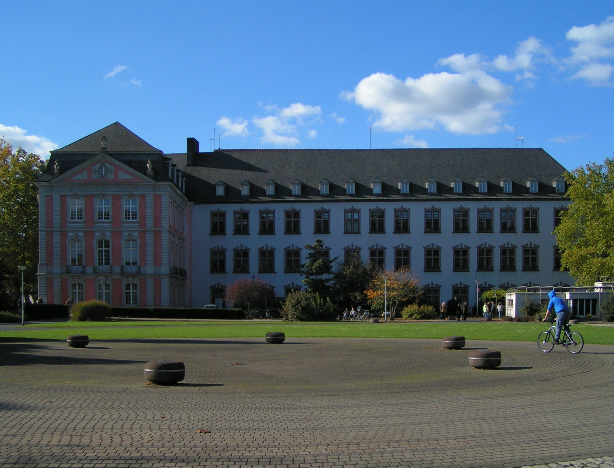 Kurfürstliches Palais, Trier, Germany